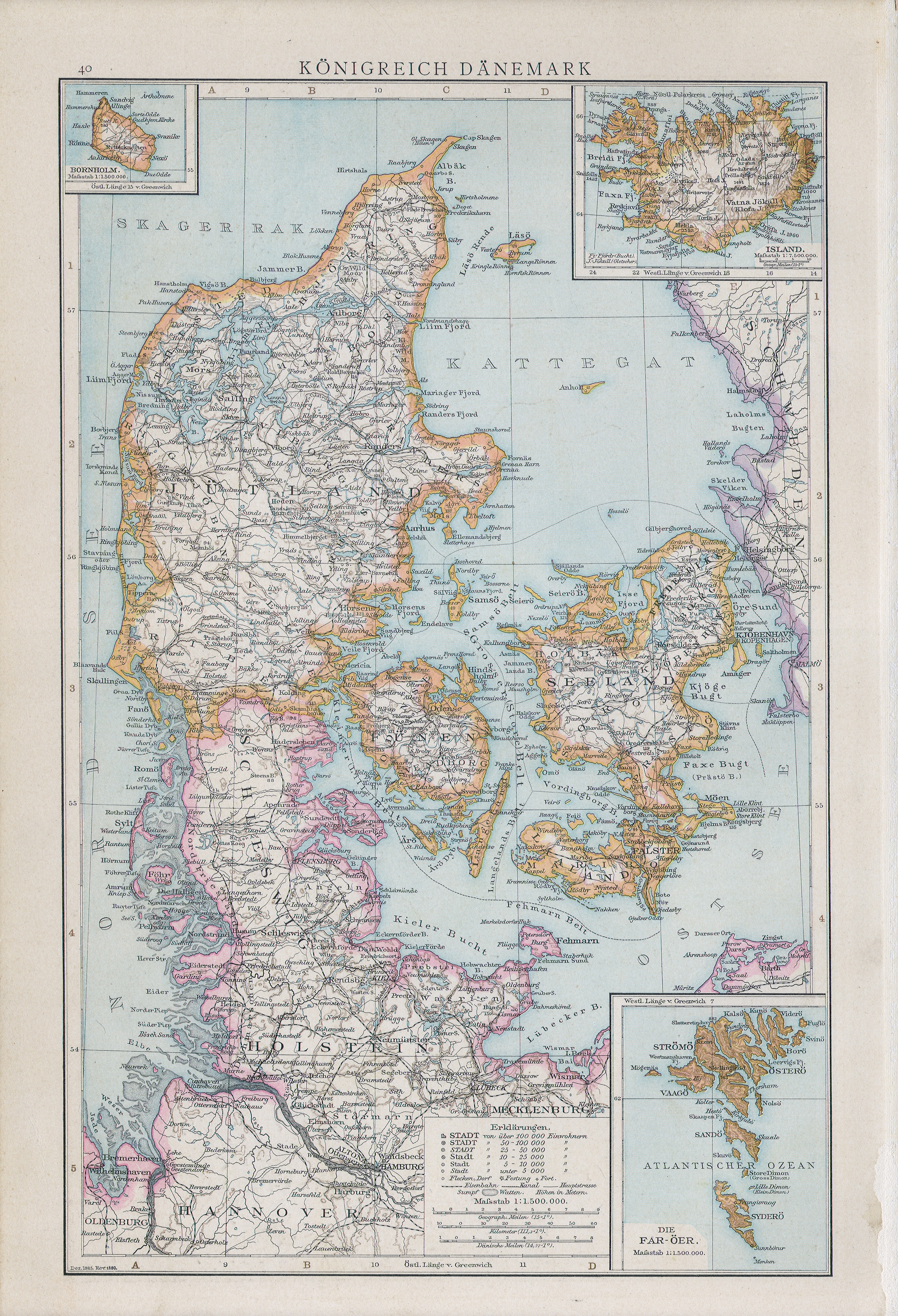 map of Denmark